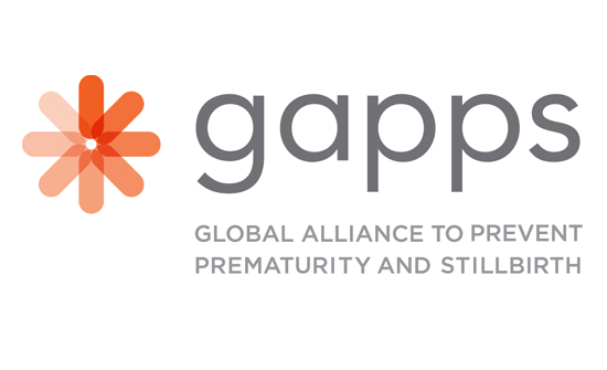 GAPPS Logo